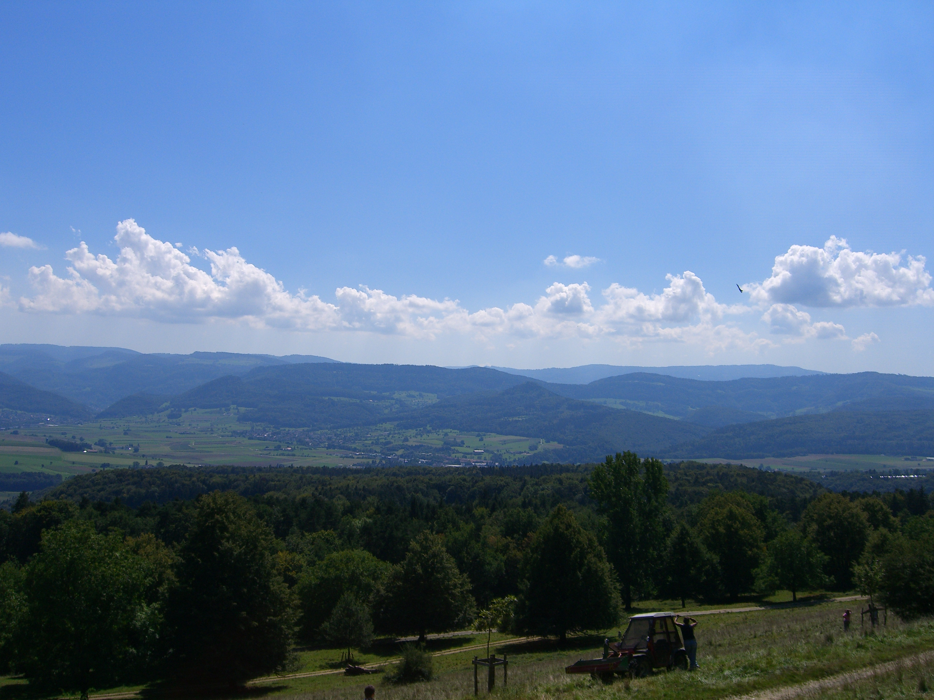 Countryside near Dittingen, Basel-Land, Switzerland